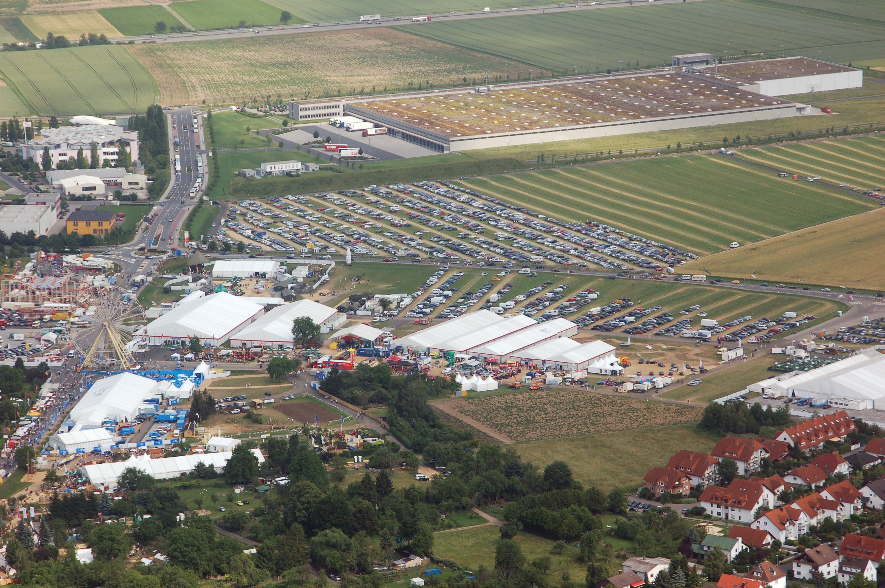 Aerial photograph of Butzbach, Hessen, Germany